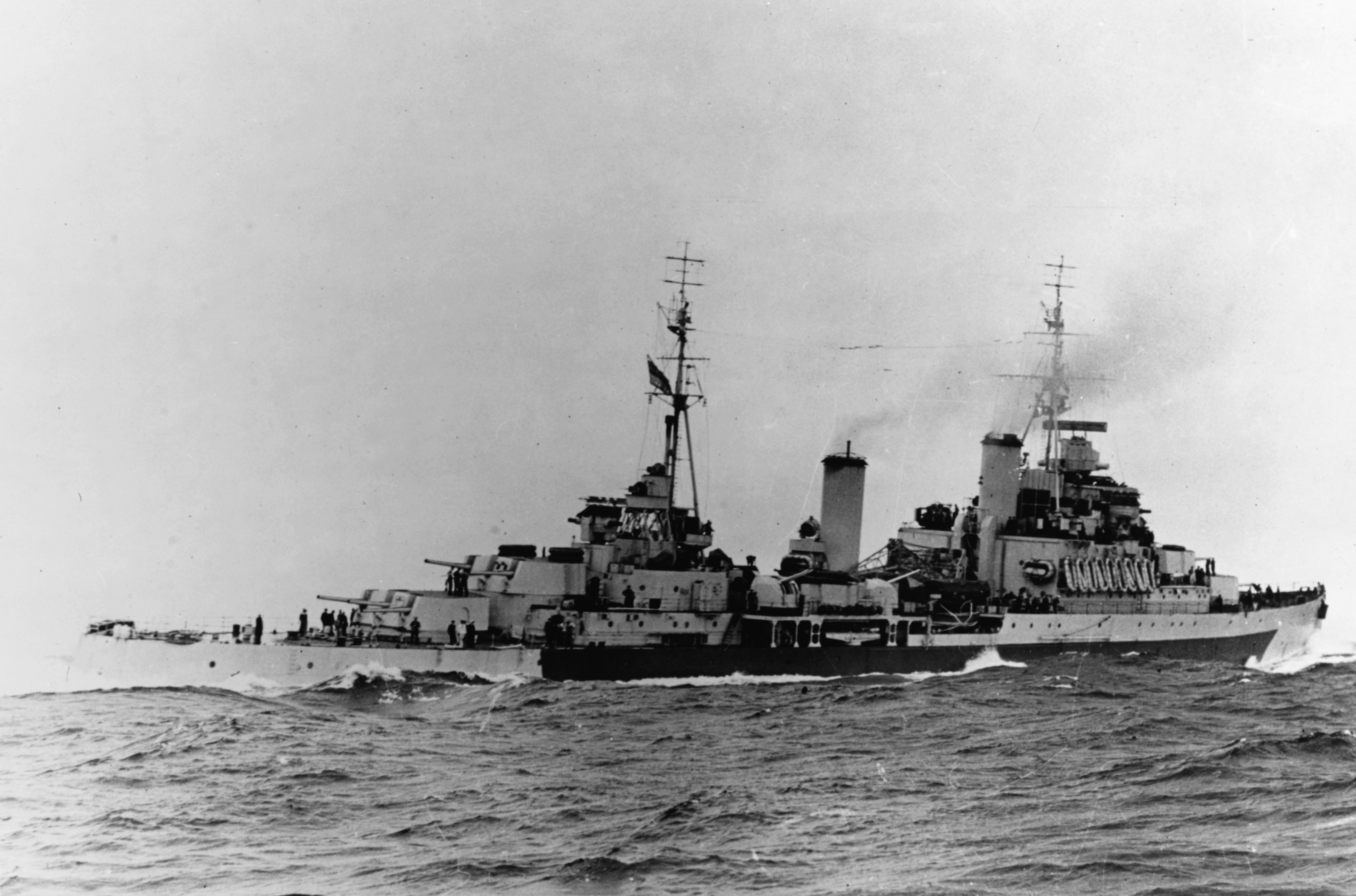 The Royal New Zealand Navy light cruiser HMNZS Gambia (48) underway, circa in 1945.